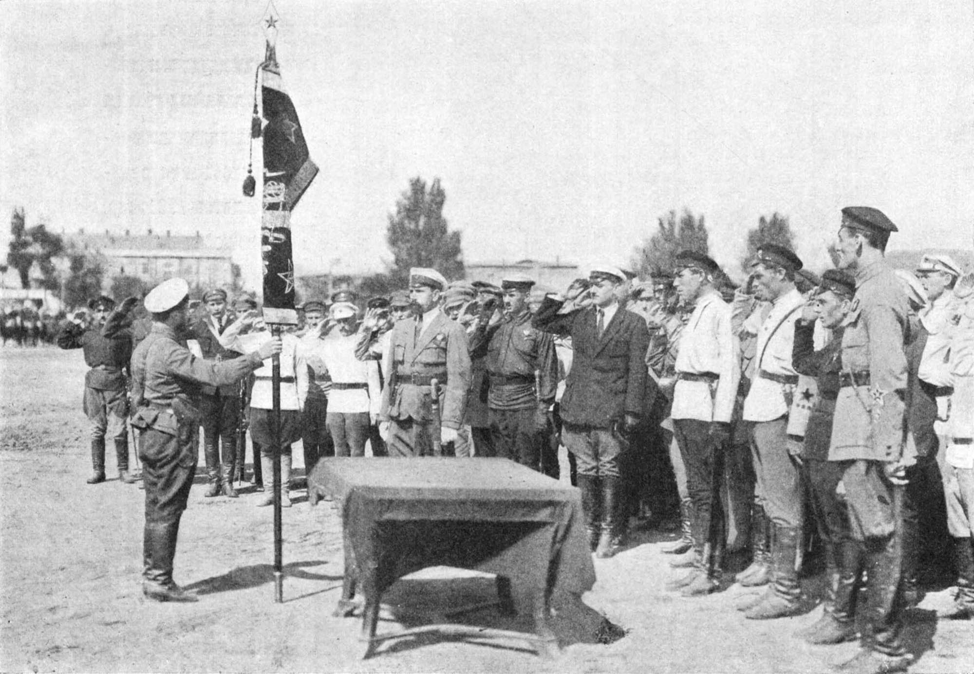 M.B. Frunze presents the commander of the 51st Division with Honorary Red Banner. P.E. Dybenko in white gloves. Crimea 1921.